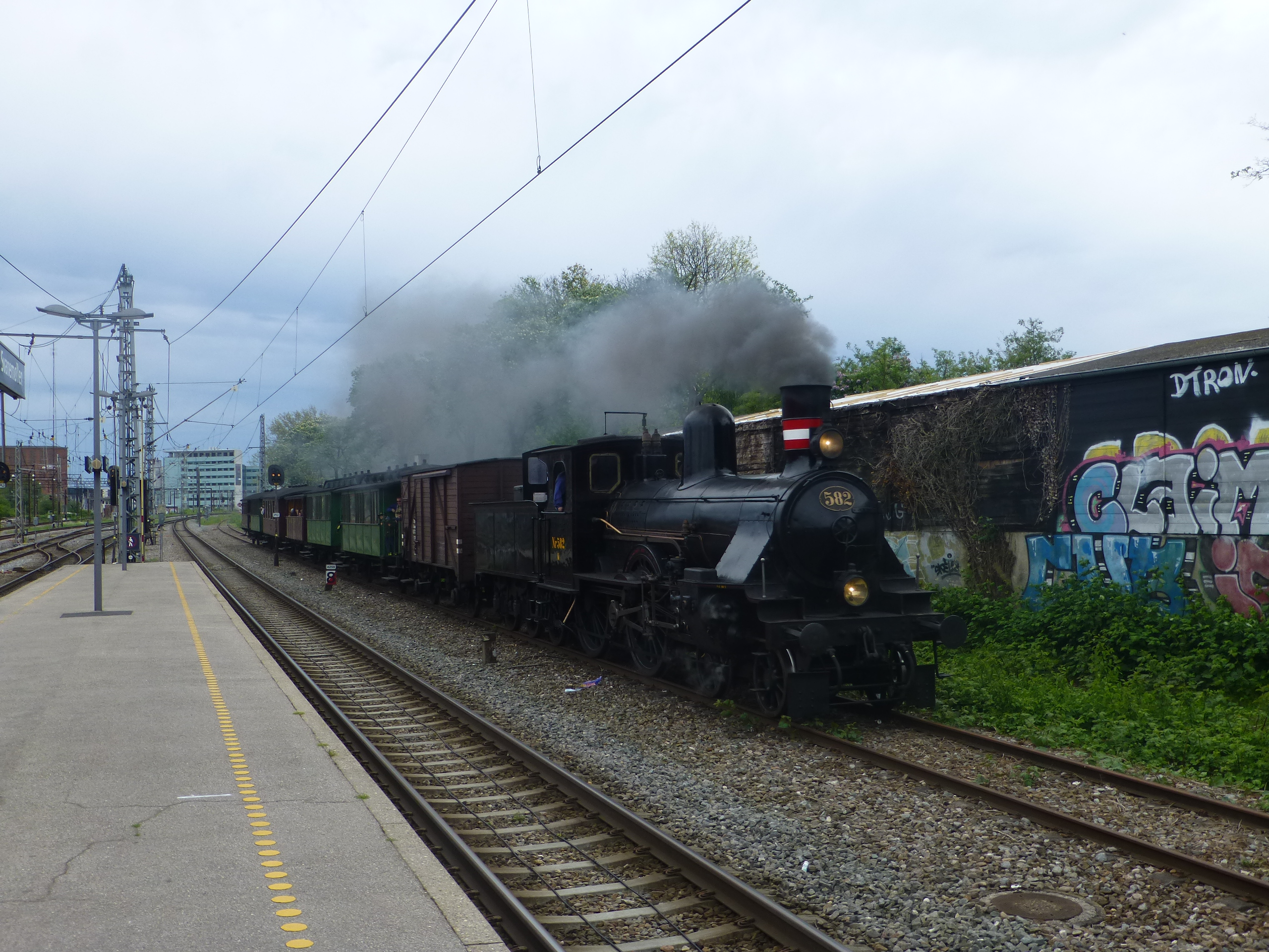 DSB K 582 with a heritage train on the railway line Frihavnsbanen between Østerport and Nørrebro in Copenhagen at Svanemøllen Station. The line is only used by a few heritage trains and other special trains.